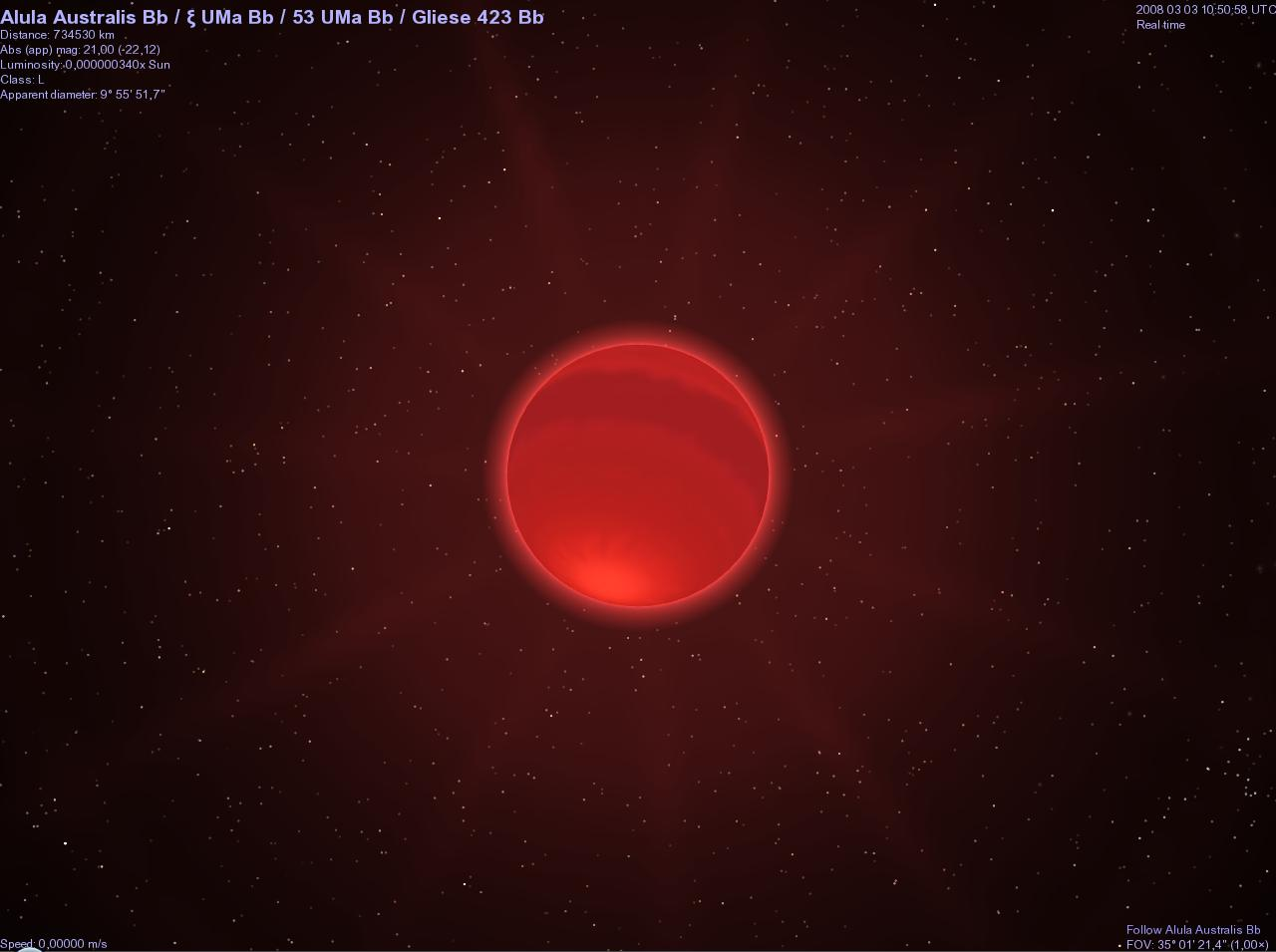 Brown Dwart in Celestia